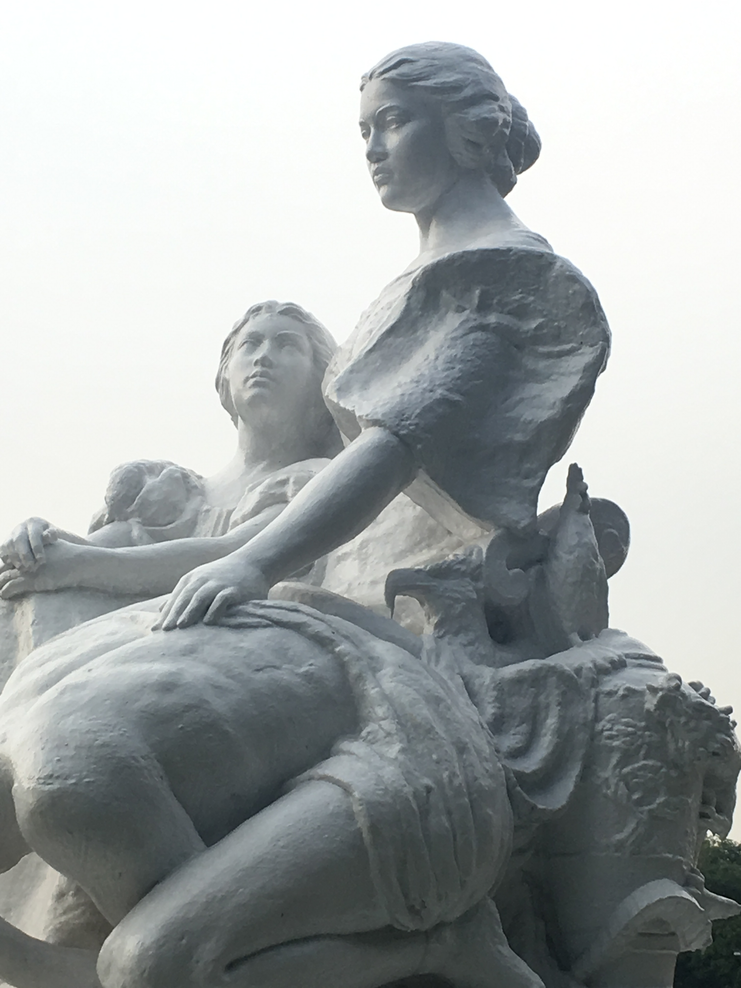 La Madre Filipina (Close up)